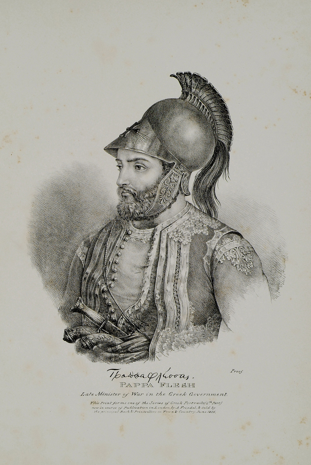 Adam de Friedel. The Greeks, Twenty-four Portraits of the principal Leaders and Personages who have made themselves most conspicuous in the Greek Revolution, from the Commencement of the Struggle, London, Adam de Friedel, 1830.